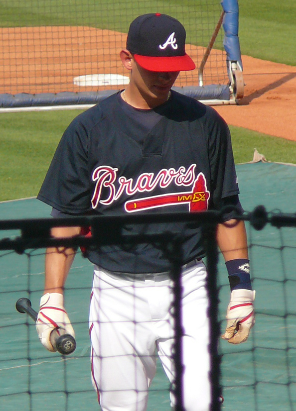 Please attribute photo with author's name if used somewhere other than Wikipedia. 19:30, 3 August 2008 . . Chrisjnelson . . 594×826 (445 KB)